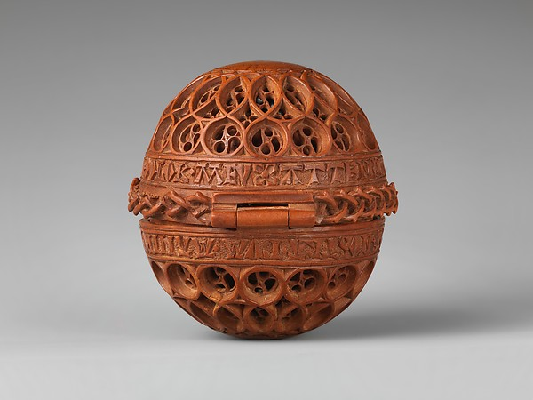 "Prayer Bead with the Adoration of the Magi and the Crucifixion". Sculpture-Miniature-Wood. Open: 4 7/16 × 3 3/16 × 1 1/16 in. (11.2 × 8.1 × 2.7 cm) Closed: 2 5/16 × 2 3/16 × 2 3/16 in. (5.8 × 5.5 × 5.6 cm). Metropolitan Museum of Art.